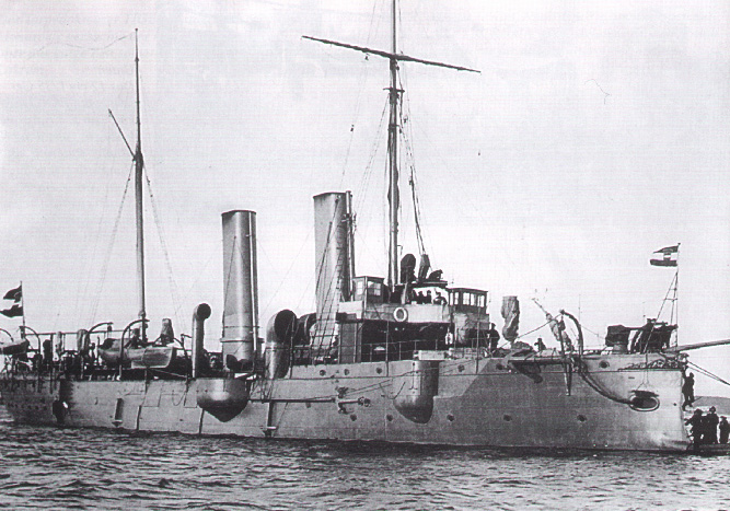 Light Cruiser SMS Panther (Austria-Hungary)